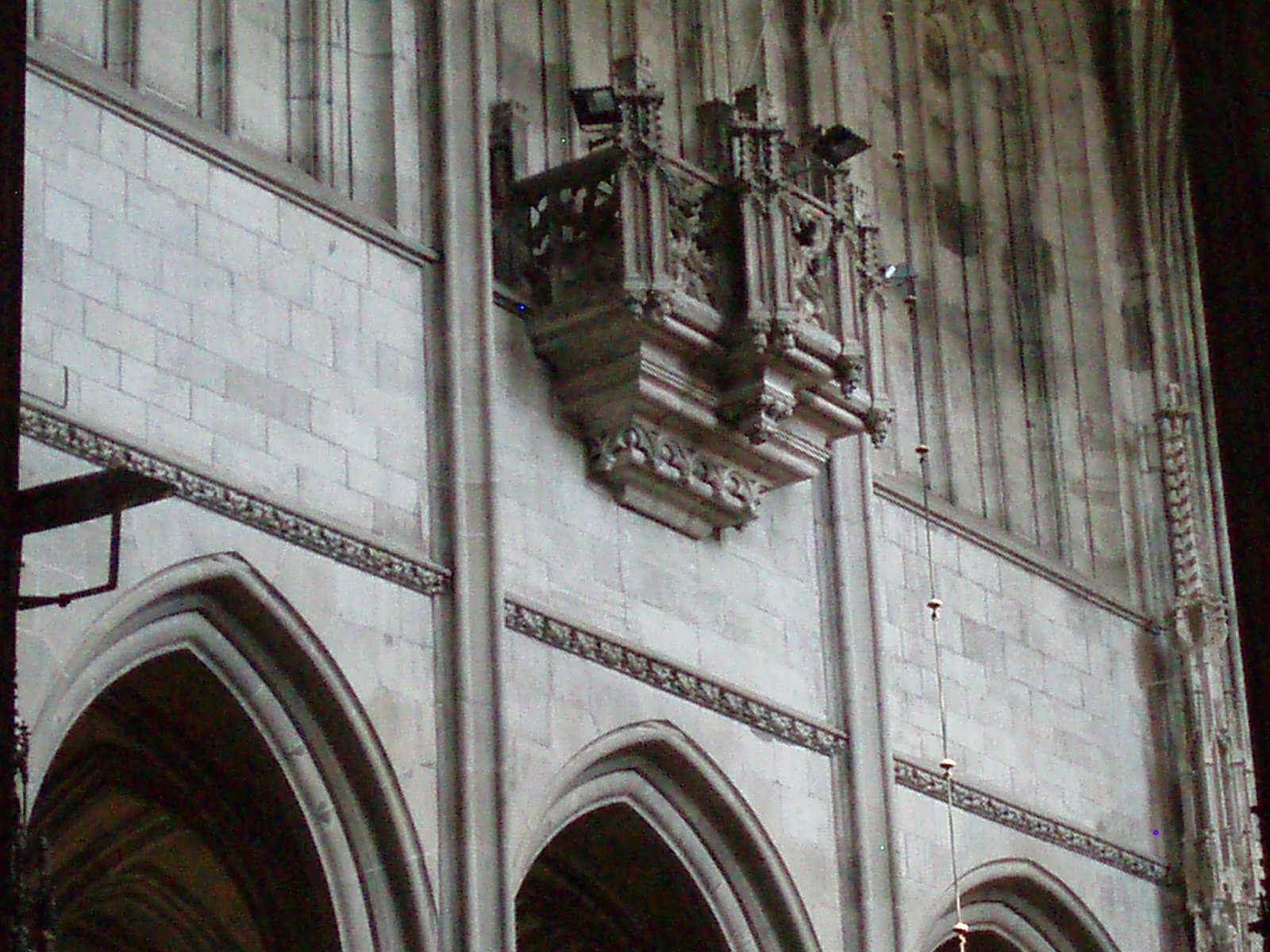 Singers tribune, St.Elisabeth Košice